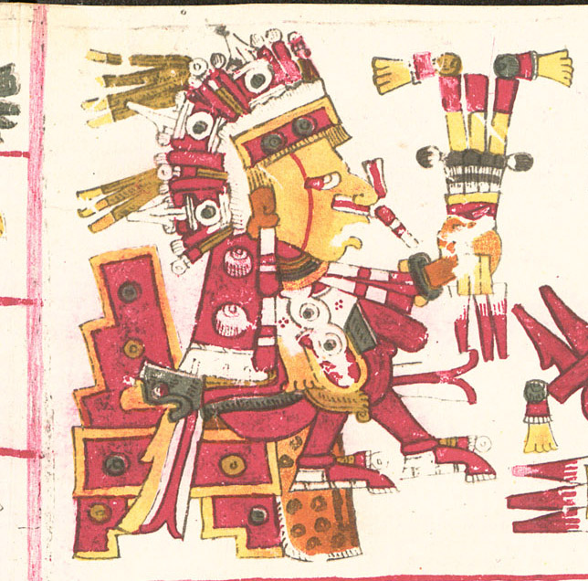 A drawing of Xipetotec, one of the deities described in the Codex Borgia